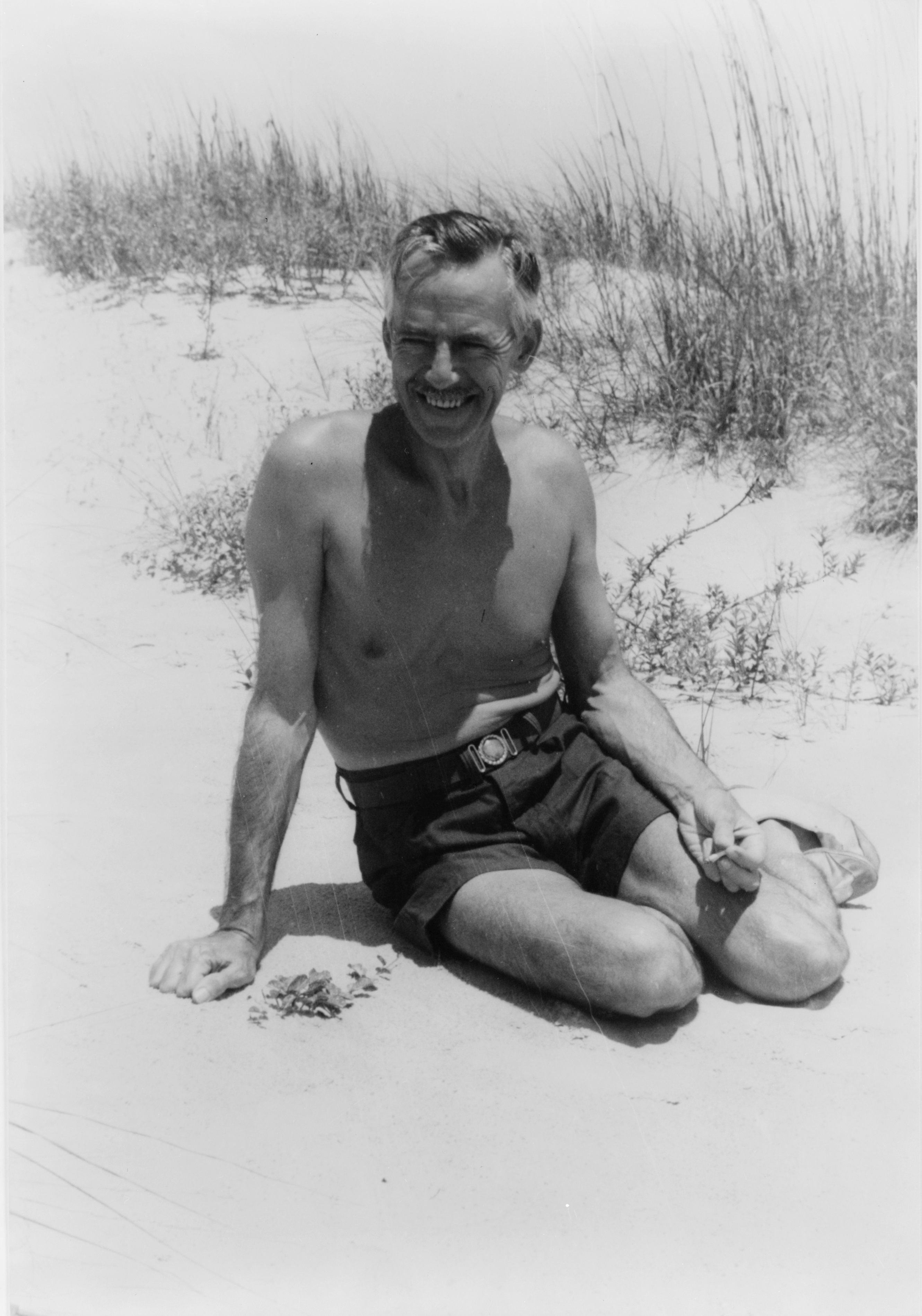 Eugene O'Neill at Sea Island BendPortrait of Eugene O'Neill, at Sea Island Bend